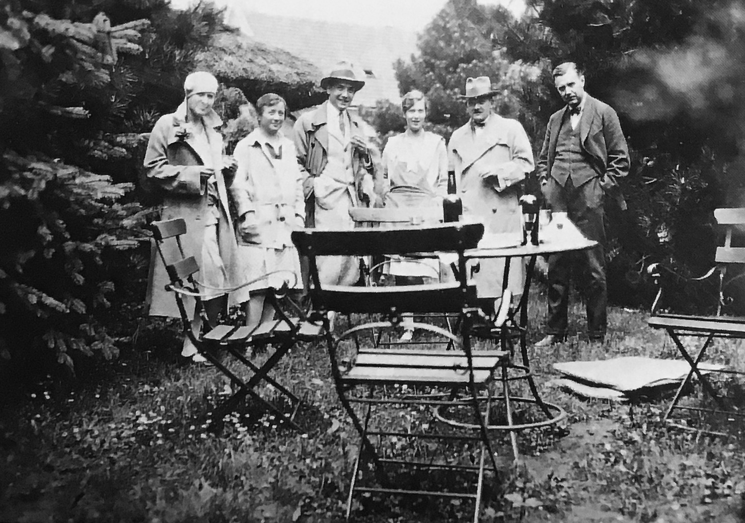 Weinbrenner Familie